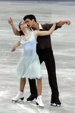 2008 World Figure Skating Championships - Tessa Virtue and Scott Moir